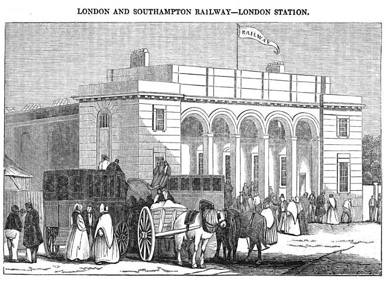 An 1838 view of Nine Elms railway station in London, from a contemporary engraving